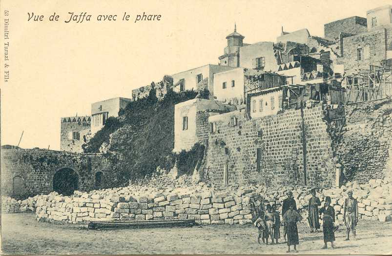 Postcard "view of Jaffa lighthouse" c. 1900